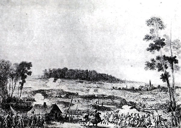 Battle of Zieleńce 1792